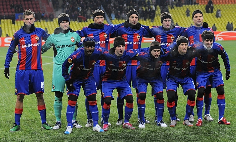 PFC CSKA Moscow in UEFA Europa League round of 32 match against PAOK F.C.